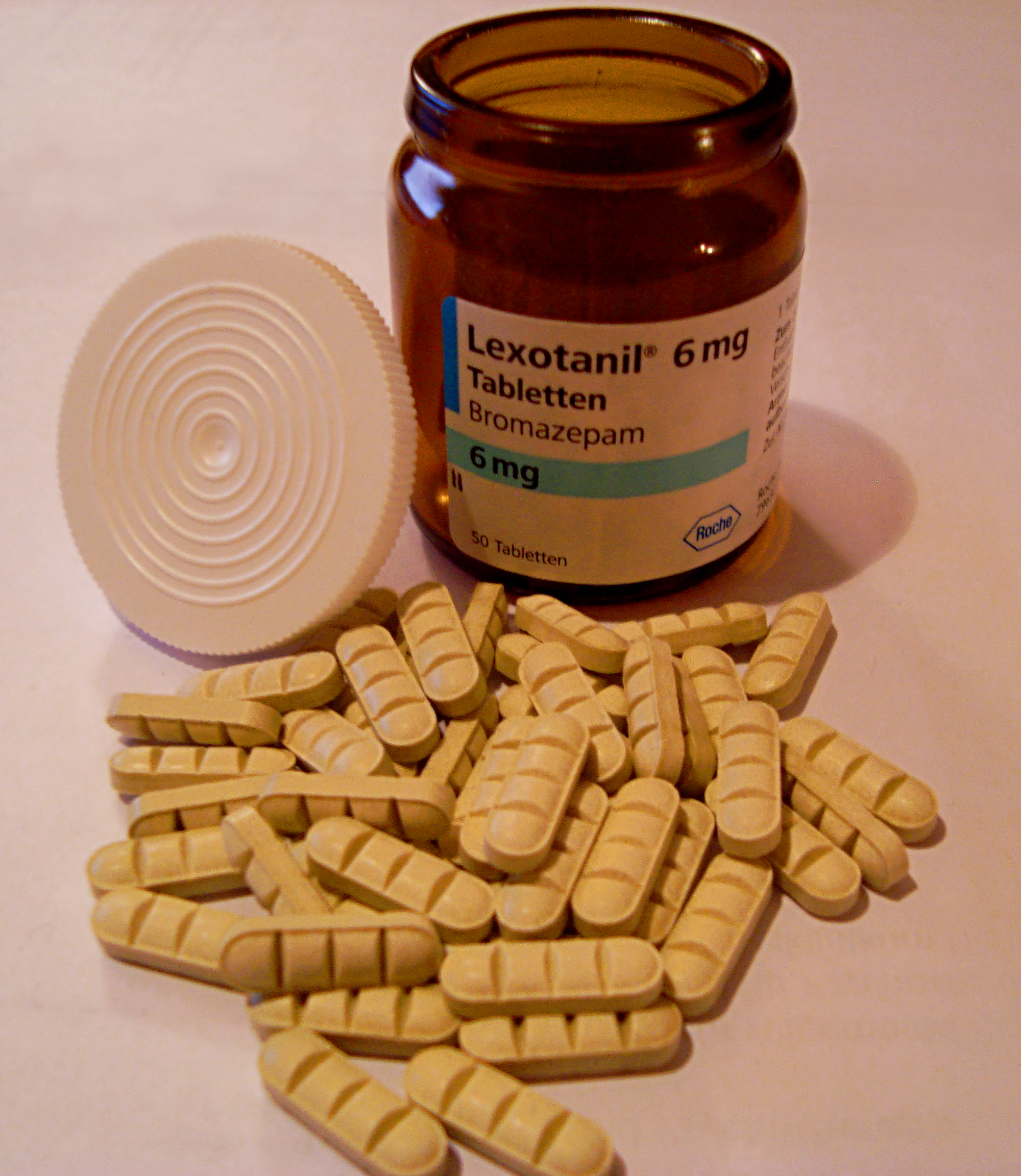 Foto taken by myself. Shows Lexotanil pills.